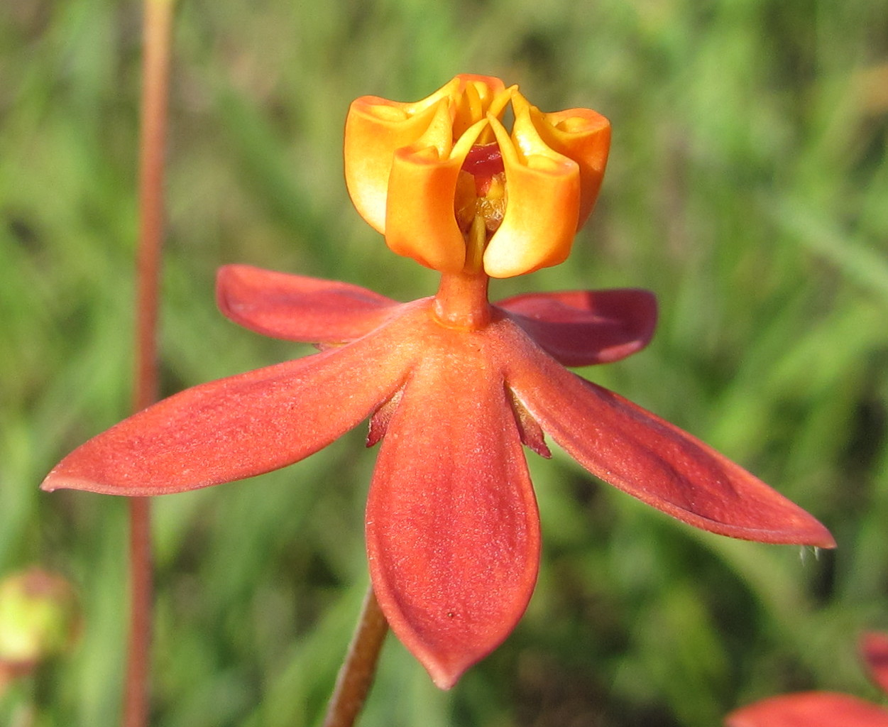 A member of the Asclepiadaceae family. Here in a boggy grassland in Mecufi District of Mozambique, close to sea-level. I think it is Stathmostelma pedunculatum (first record in Mozambique?)..